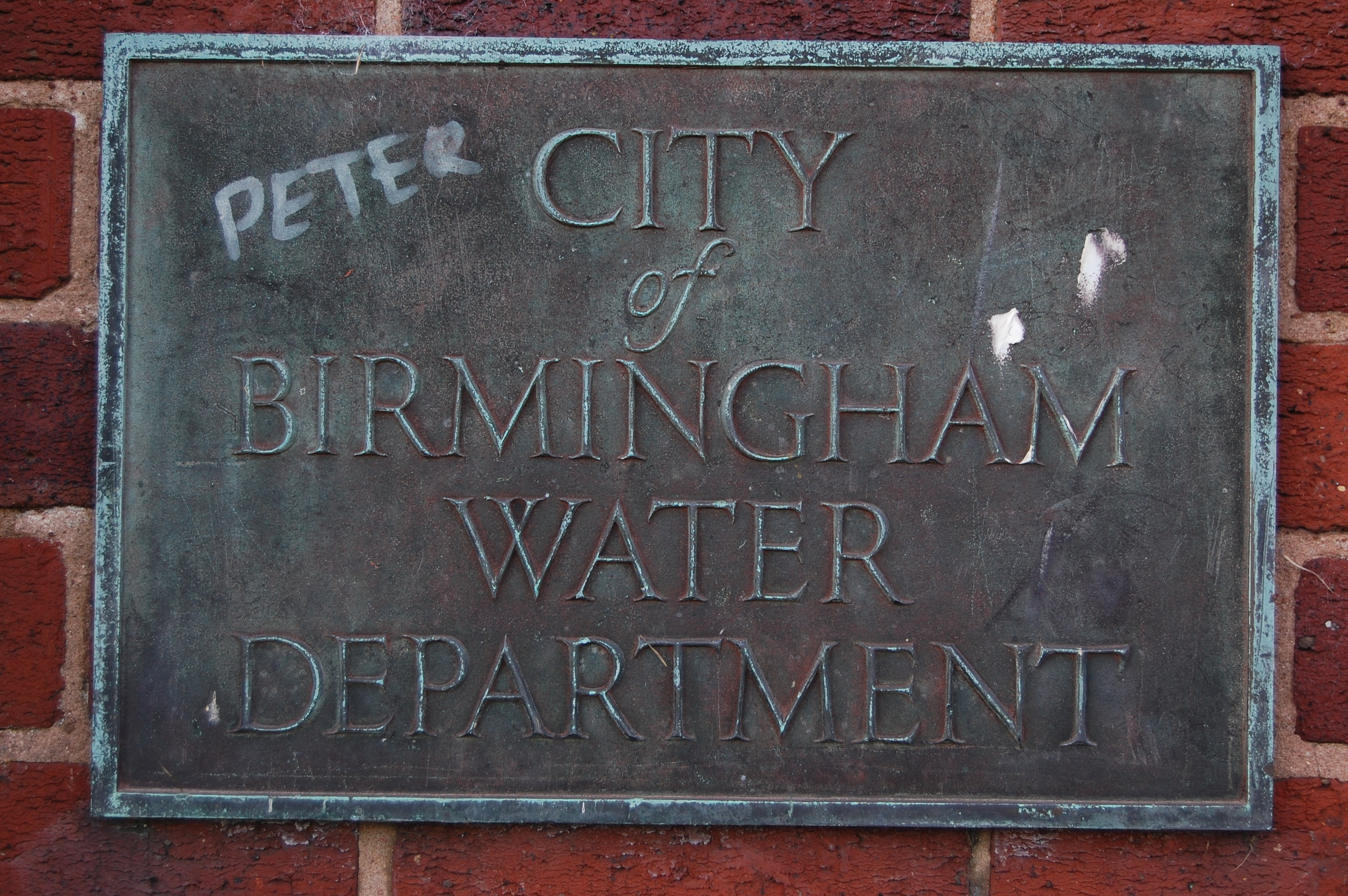 Old City of Birmingham Water Department sign at Perry Barr Reservoir, Birmingham, England.